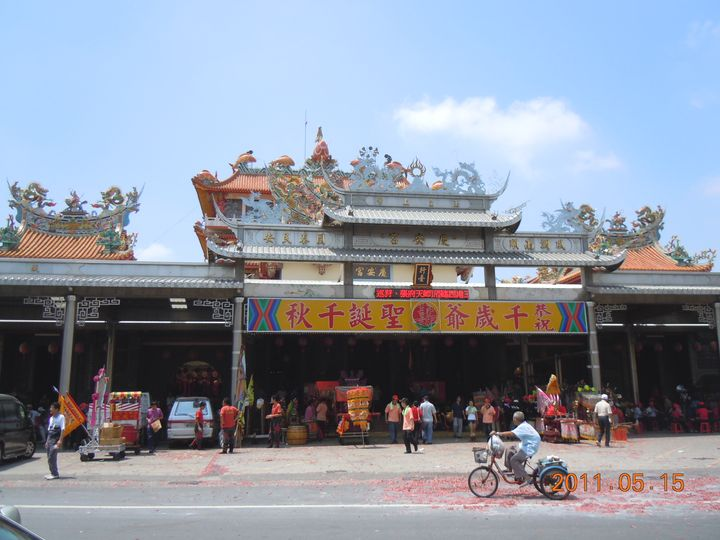 Xigang Qingan Temple, Tainan.